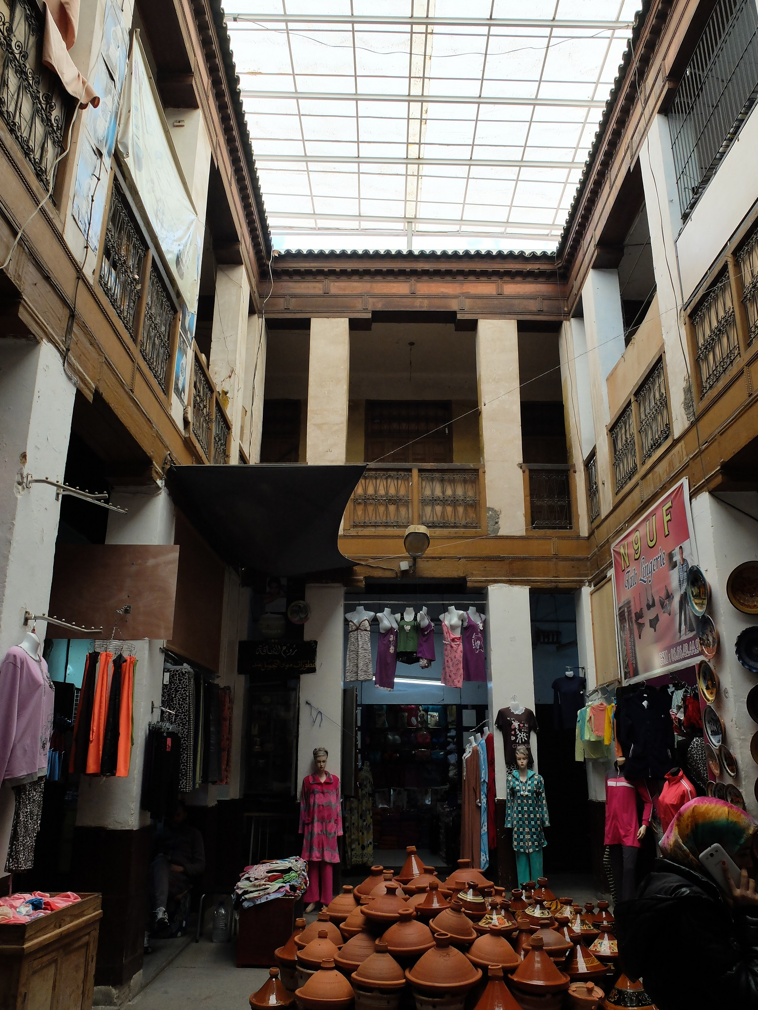 The former location of the Maristan of Sidi Frej, closed or destroyed in 1944, now a foundouk with shops.